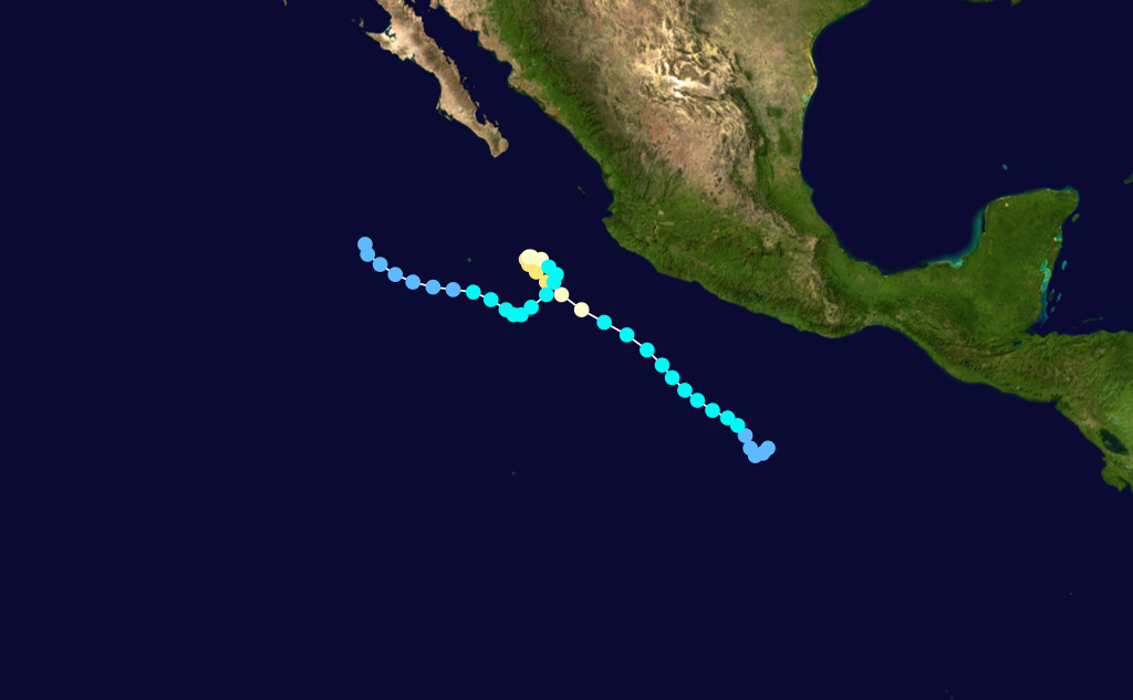 Hurricane Vance (1990) track. Uses the color scheme from the Saffir-Simpson Hurricane Scale.